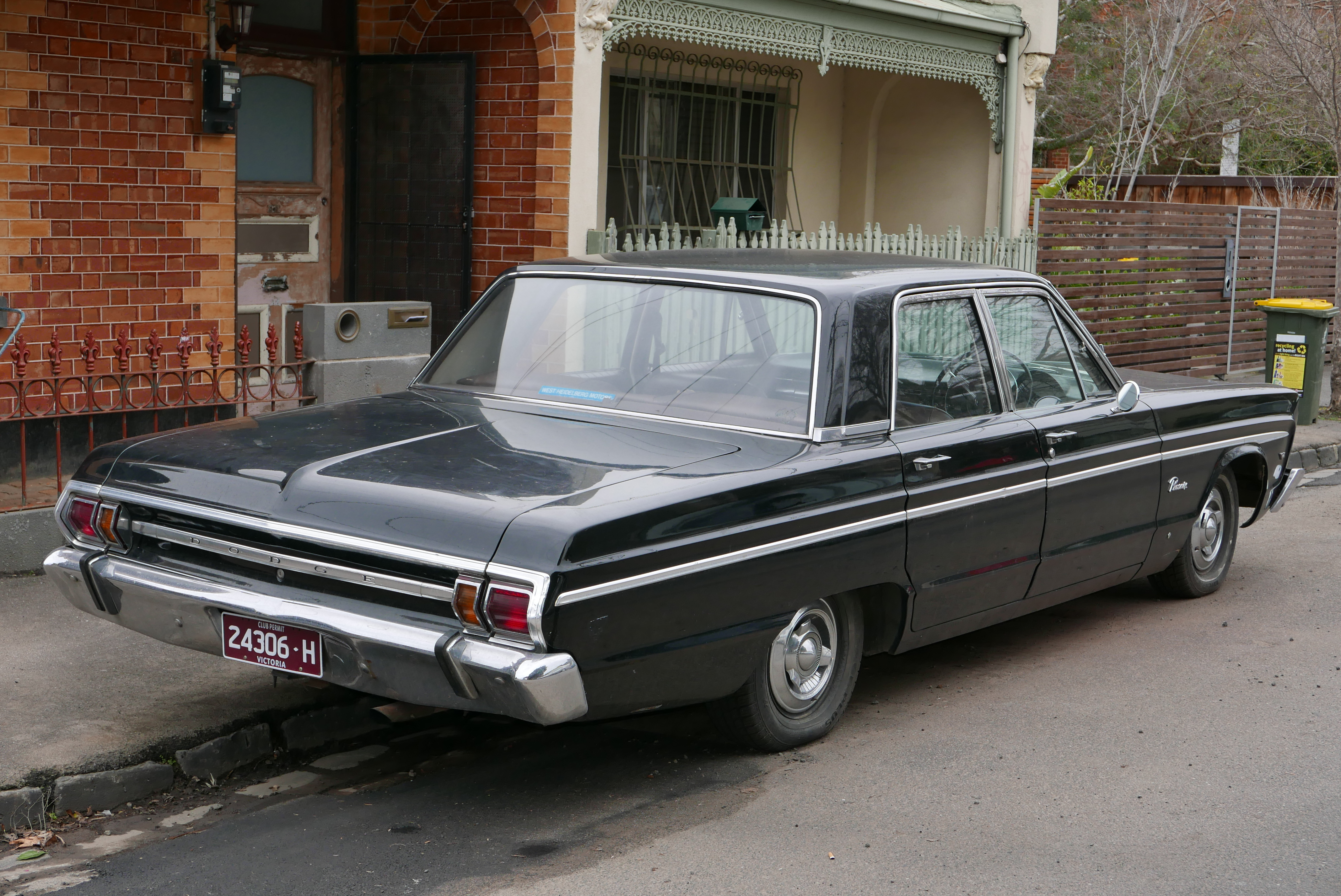 1965–1966 Dodge Phoenix (AP2D) sedan. Photographed in Fitzroy North, Victoria, Australia.